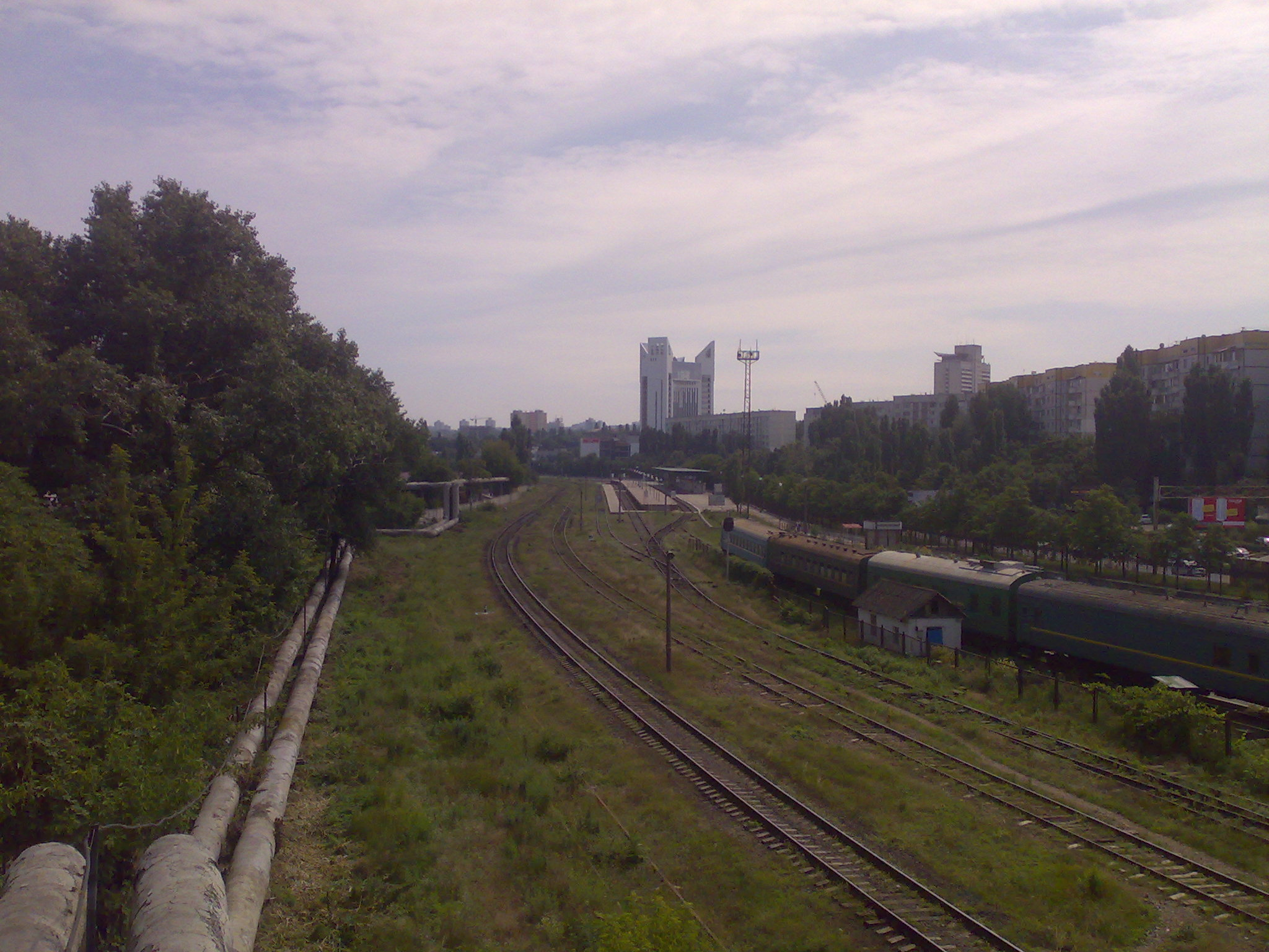 Chisinau Railway